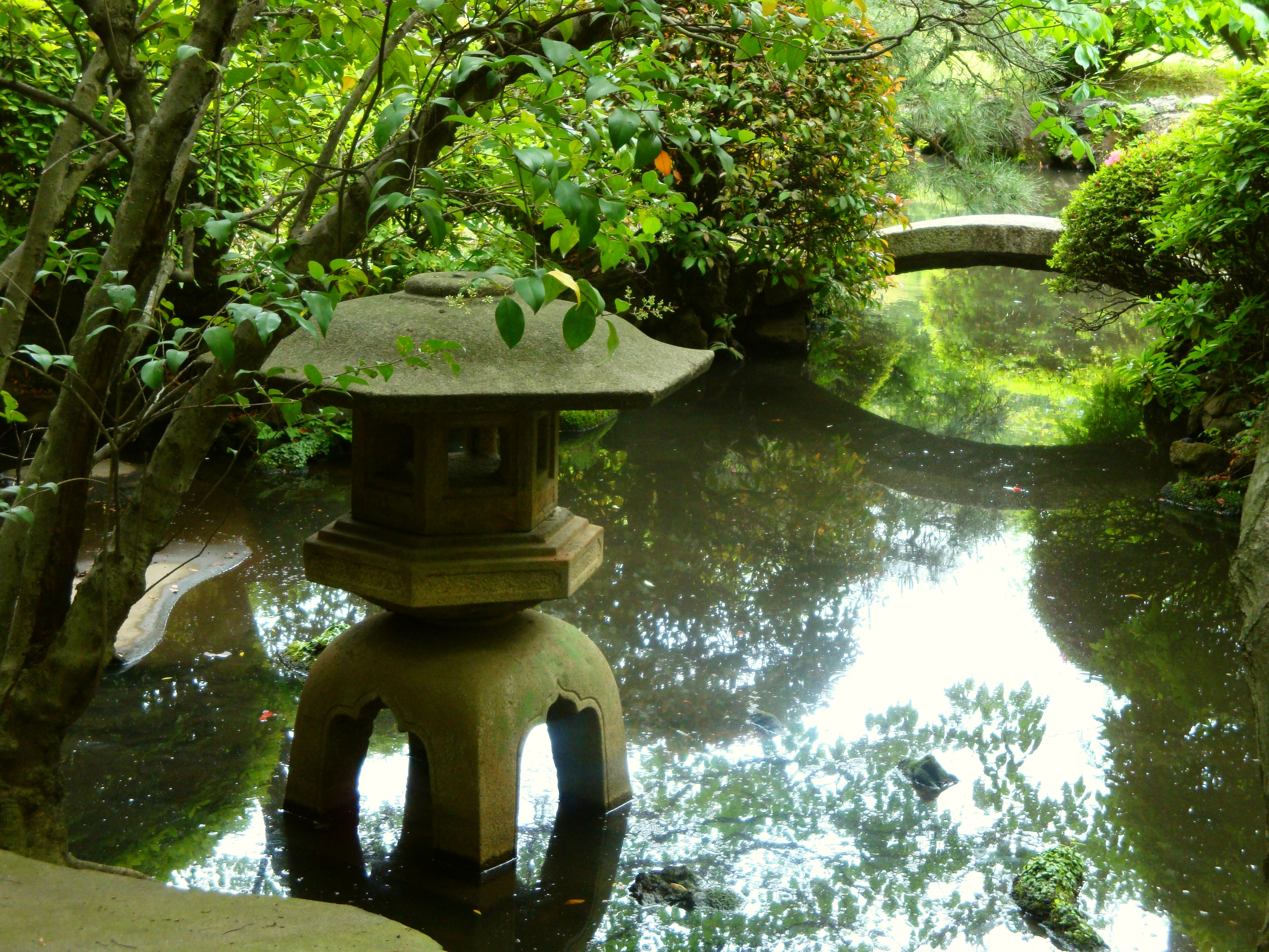 A lantern in the Okuma Garden